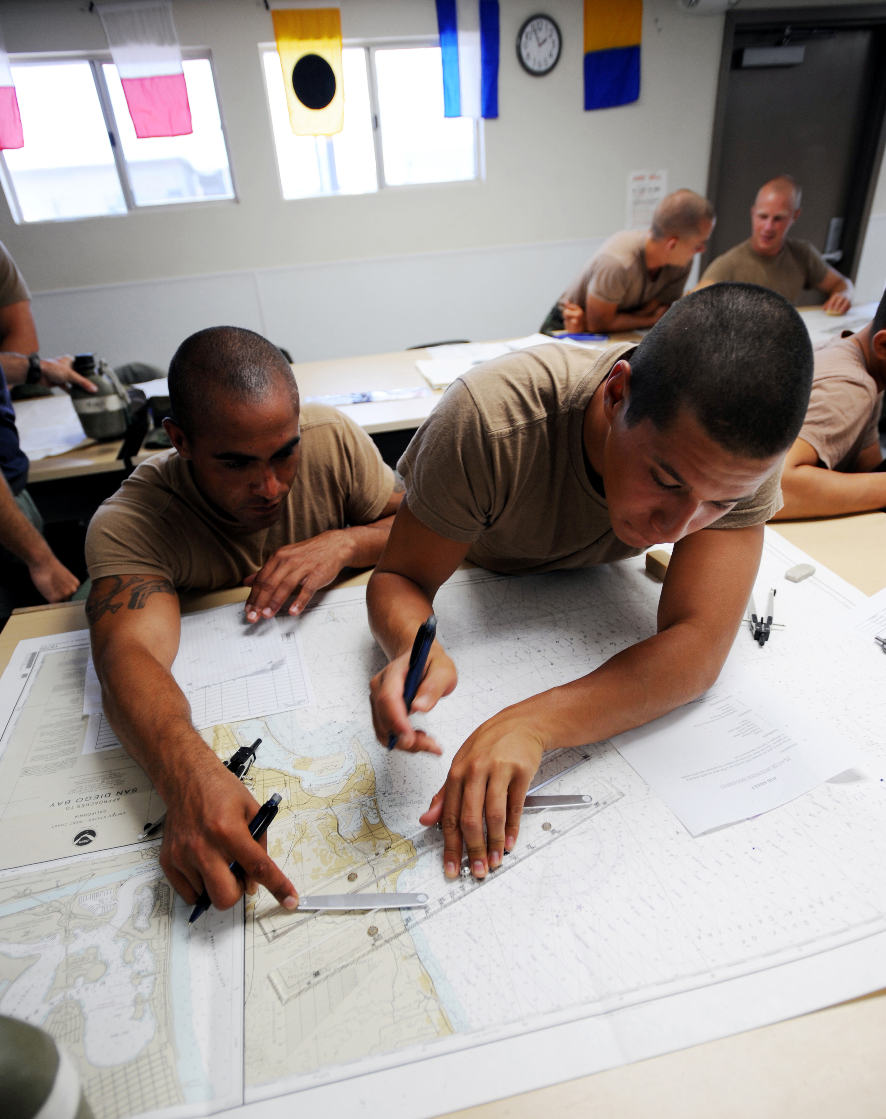 SAN DIEGO (July 29, 2008) Basic crewman training (BCT) students lay out navigational tracks on a chart during class at Naval Amphibious Base Coronado. BCT is the first phase of the special warfare combatant-craft crewman (SWCC) training pipeline. SWCCs operate and maintain the Navy's inventory of state-of-the-art, high-performance boats used to support SEALs in special operations missions worldwide. (U.S. Navy photo by Mass Communication Specialist 2nd Class Christopher Menzie/Released)